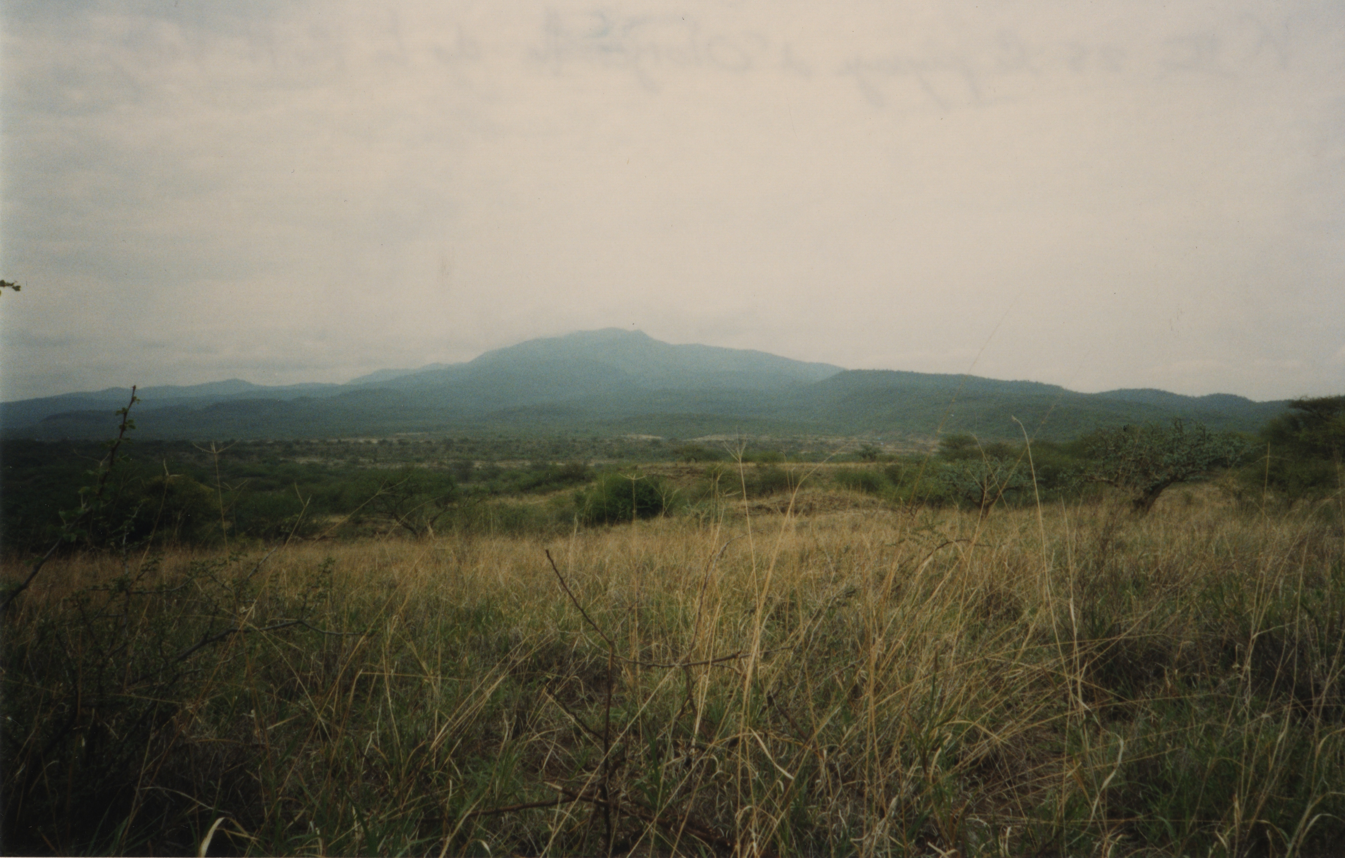 Landscape near the archaeological site of Olorgesailie in Kenya in AD 1993 with the Mt Olorgesailie.